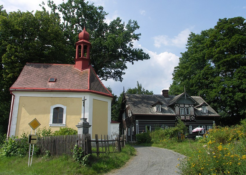 Chapel in Trávník (Glasert), Czech Republic